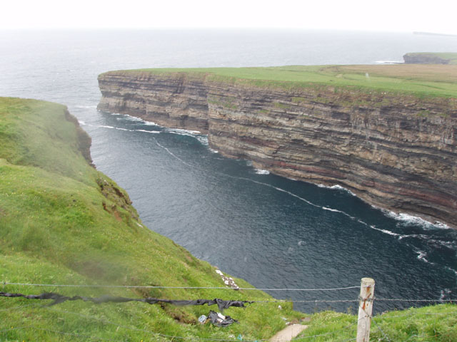 Coastline near Ceide Fields, with Benaderreen Head